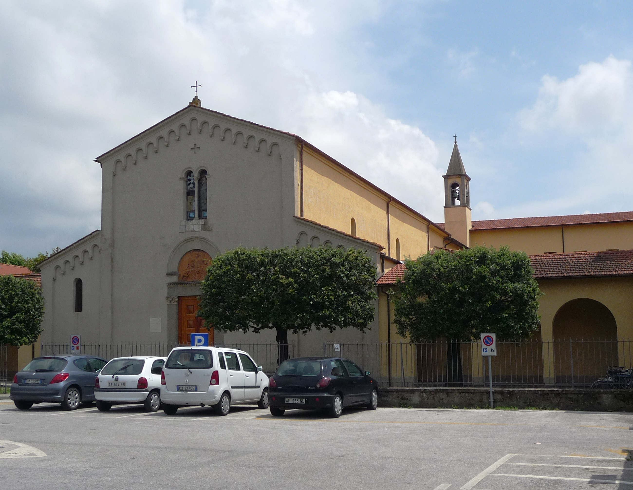 Church "San Donnino", Pisa, Italy (San Giusto, Via Quarantola)